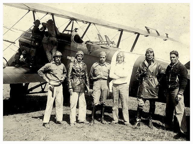 Members of the aviation group of the "Gaviões de Penacho" Constitutionalist Army at Campo de Marte airfield, São Paulo-SP, in September 1932. In the image (from left to right), among others, the then 1st lieutenant-aviator Artur Motta Lima (second), 2nd lieutenant Eugênio Sodré Borges (third), 2nd lieutenant Mário Machado Bittencourt (fourth), Major Aviador and Commander of the group Lysias Augusto Rodrigues (fifth) and 1st lieutenant aviator José Ângelo Gomes Ribeiro (sixth). Mario and José Ângelo were killed in combat on September 24 1932, during an aerial bombing mission in the battlecruiser Rio Grande do Sul, on the coast of Guarujá-SP.